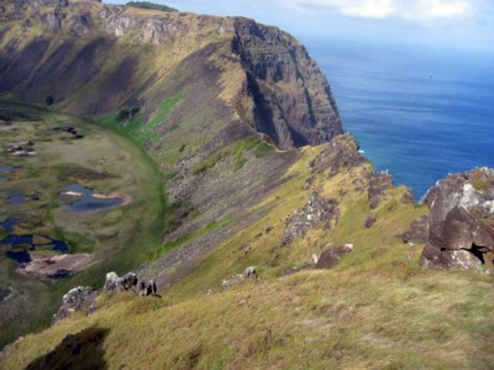 Easter Island